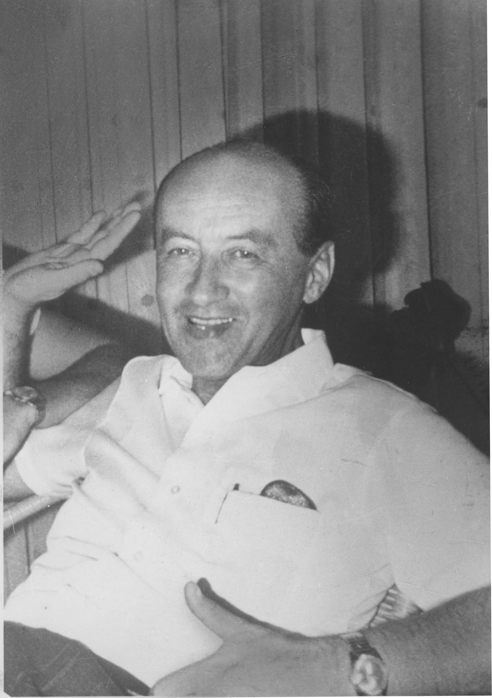 Dr Shimon Brandstetter head of internal medicine